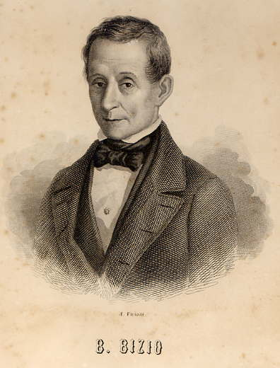 Portrait of Bartolomeo Bizio, marine zoologist (1791-1862)